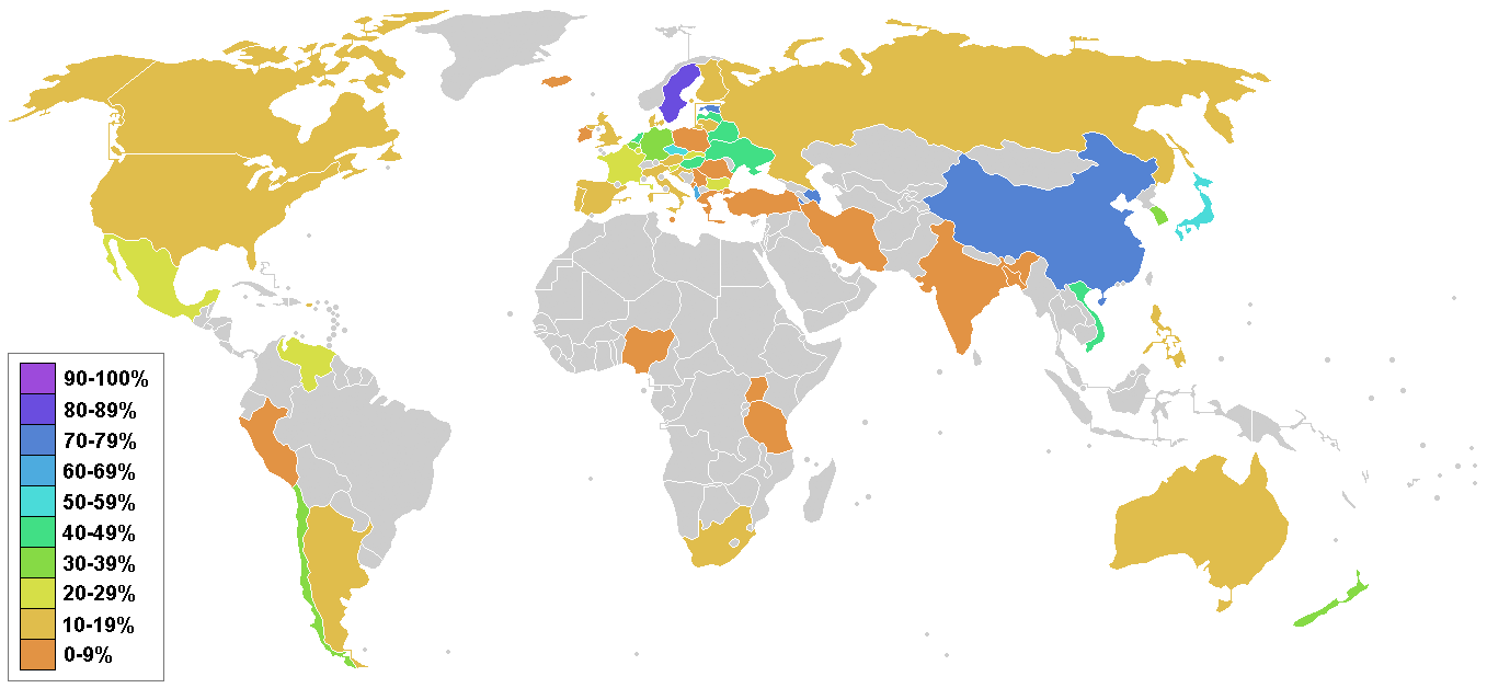 Irreligion around the world .